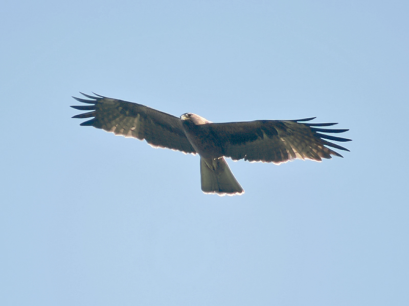 Booted's Eagle Hieraaetus pennatus at 8000 ft. in Kullu District of Himachal Pradesh, India.